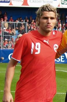 Valon Behrami before the friendly match against China on June 3, 2006